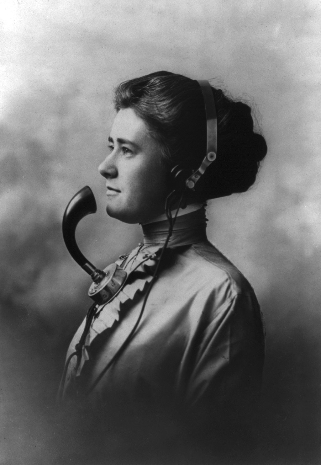 Bust of woman, facing left, wearing earphones and a mouth piece.